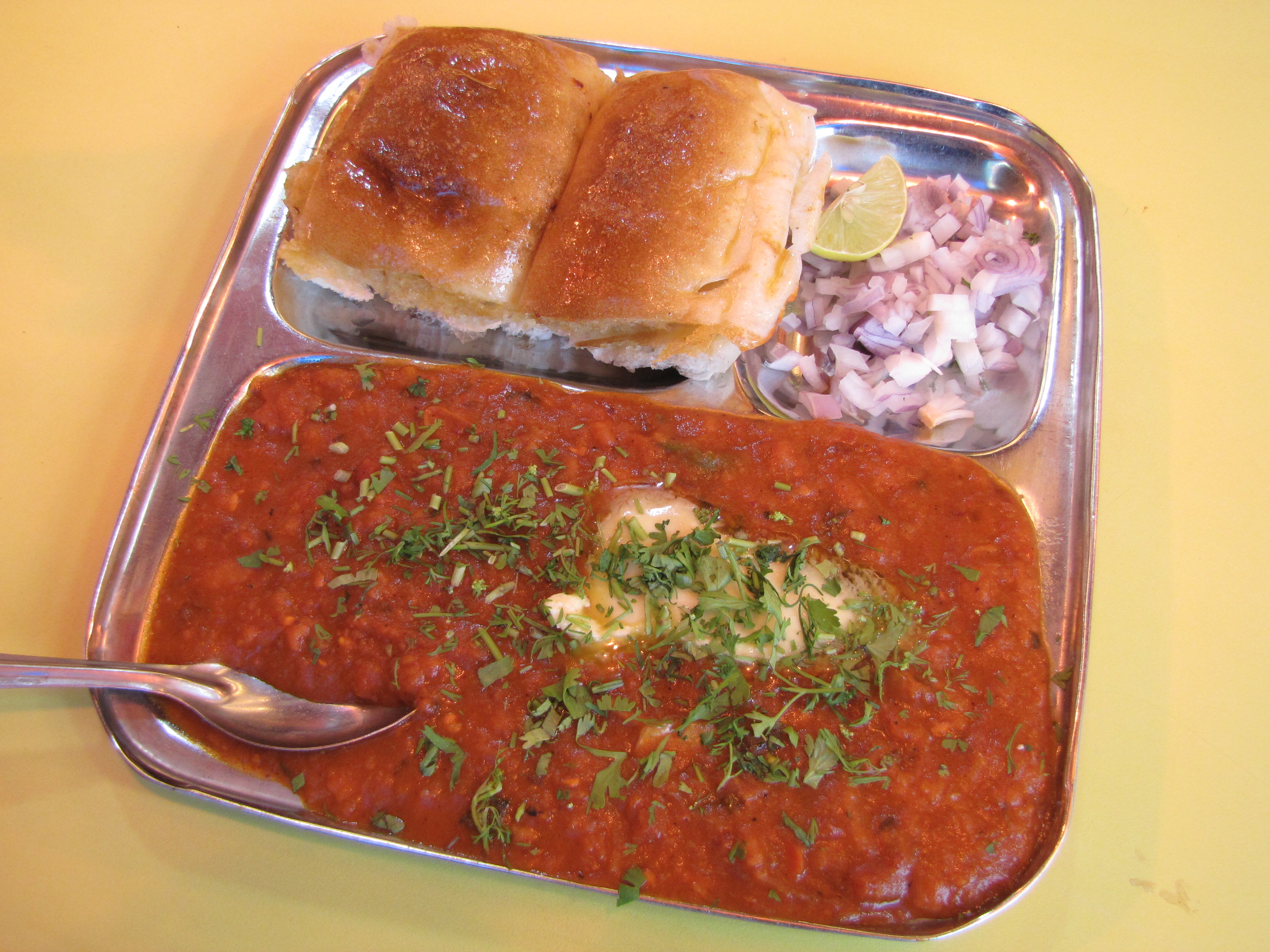 A snack known from Mumbai